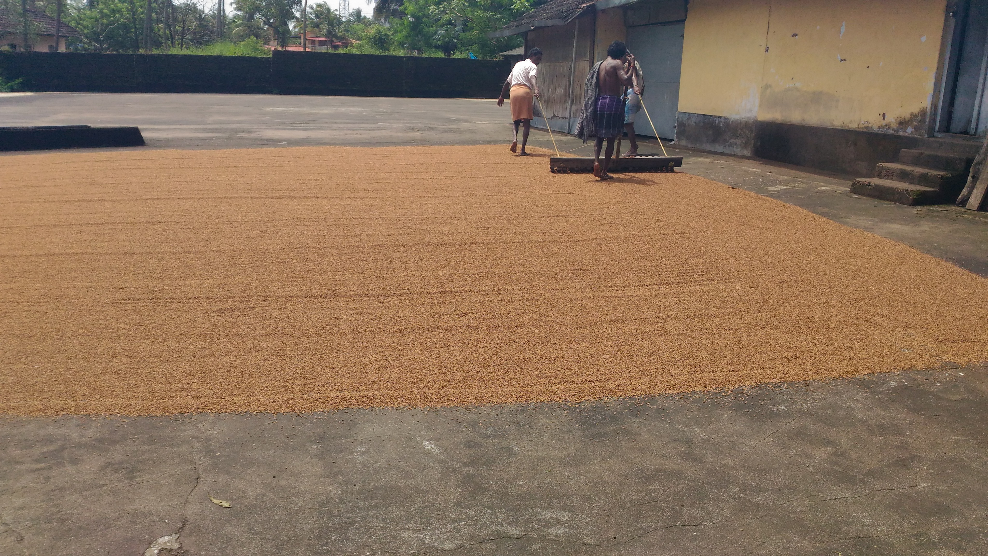 Vithukootti വിത്തുകൂട്ടി